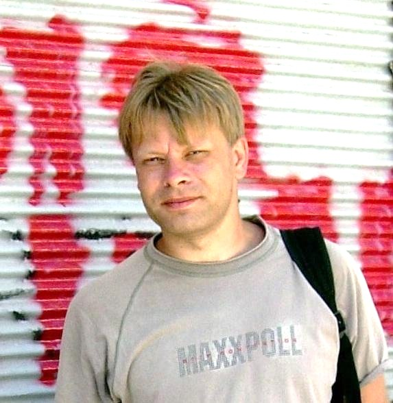 Polish journalist, Jacek Antczak